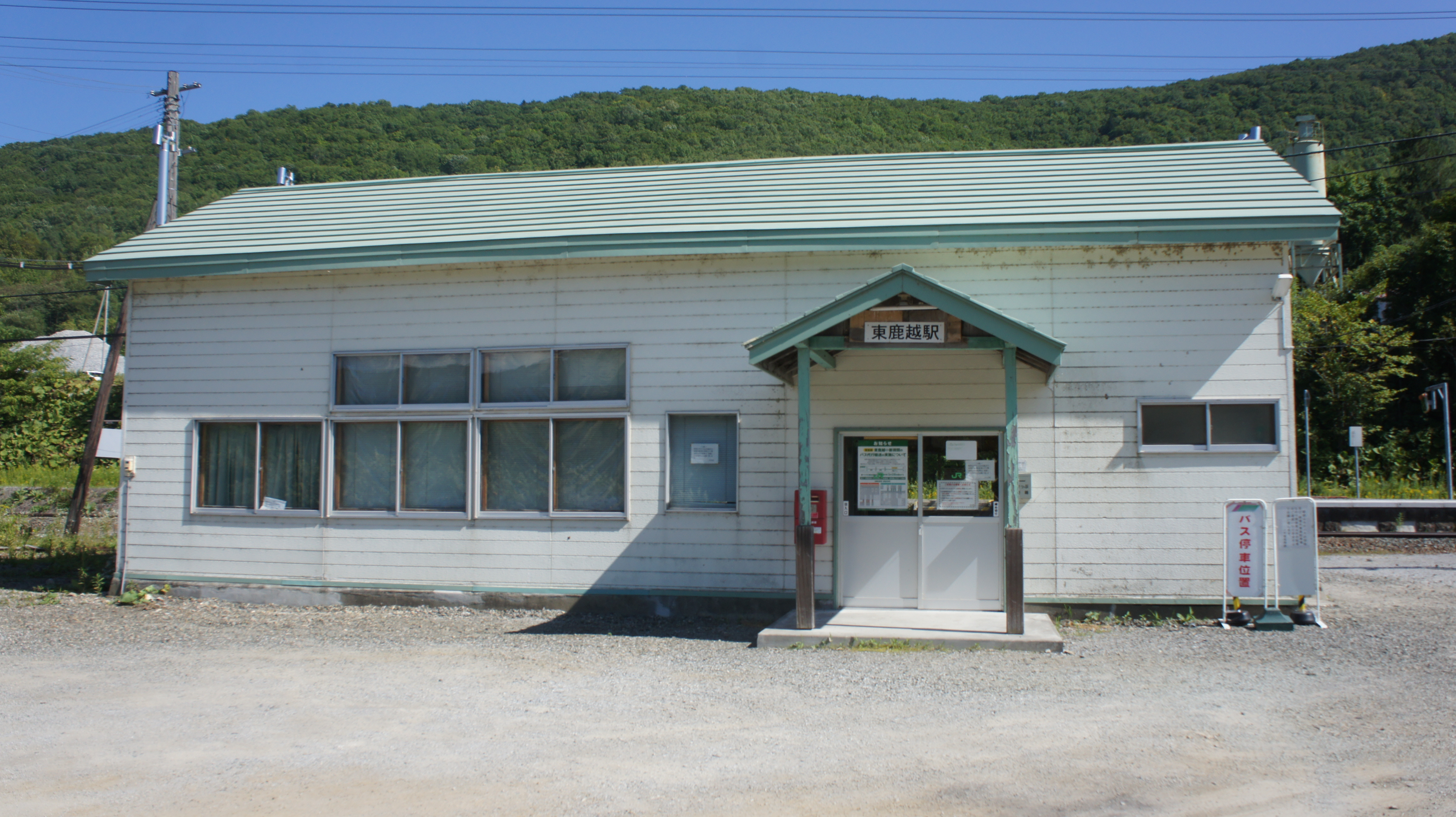 Higashi-Shikagoe Station on the Nemuro Main Line in Hokkaido, Japan